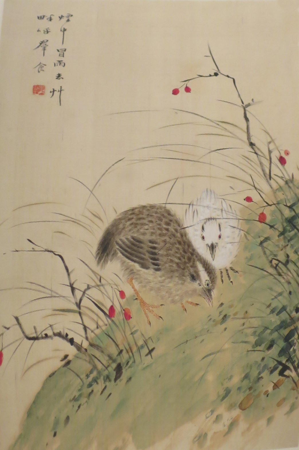 Album of Bird Paintings by Hua Yan, album of eight leaves, ink and color on silk, 18th century, long-term loan to the Honolulu Museum of Art